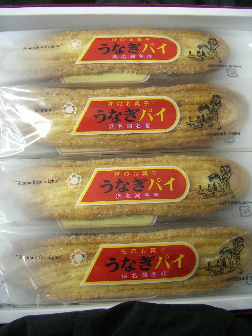 Unagi pie (A sweet pie at Shunkadō in Hamamatsu, Shizuoka, Japan)